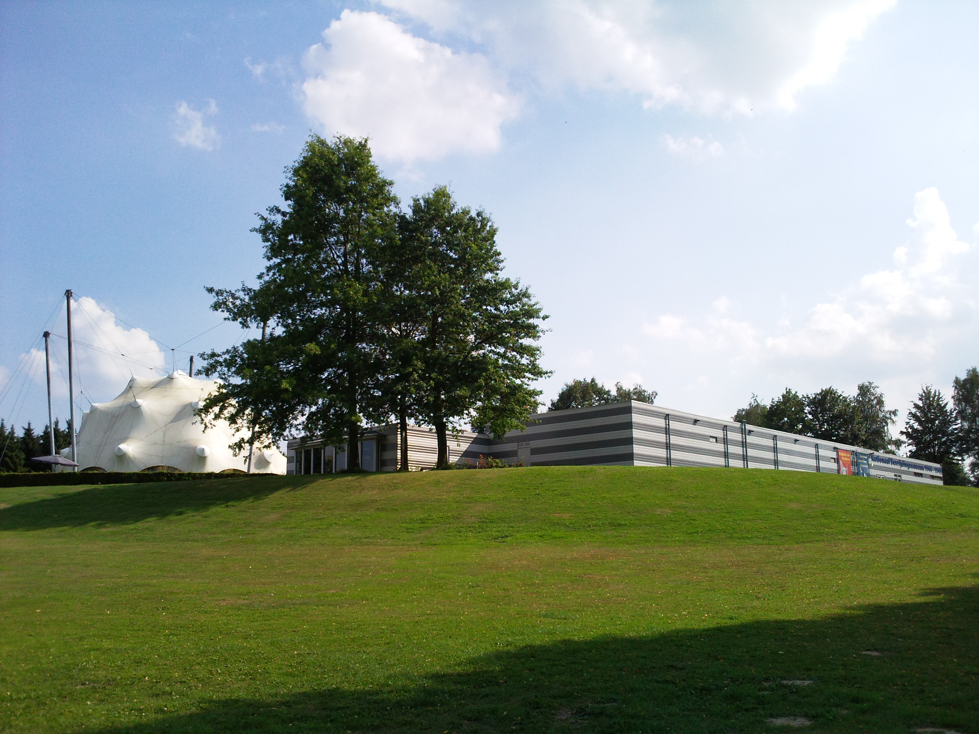 Liberation WOII Museum Groesbeek, NL